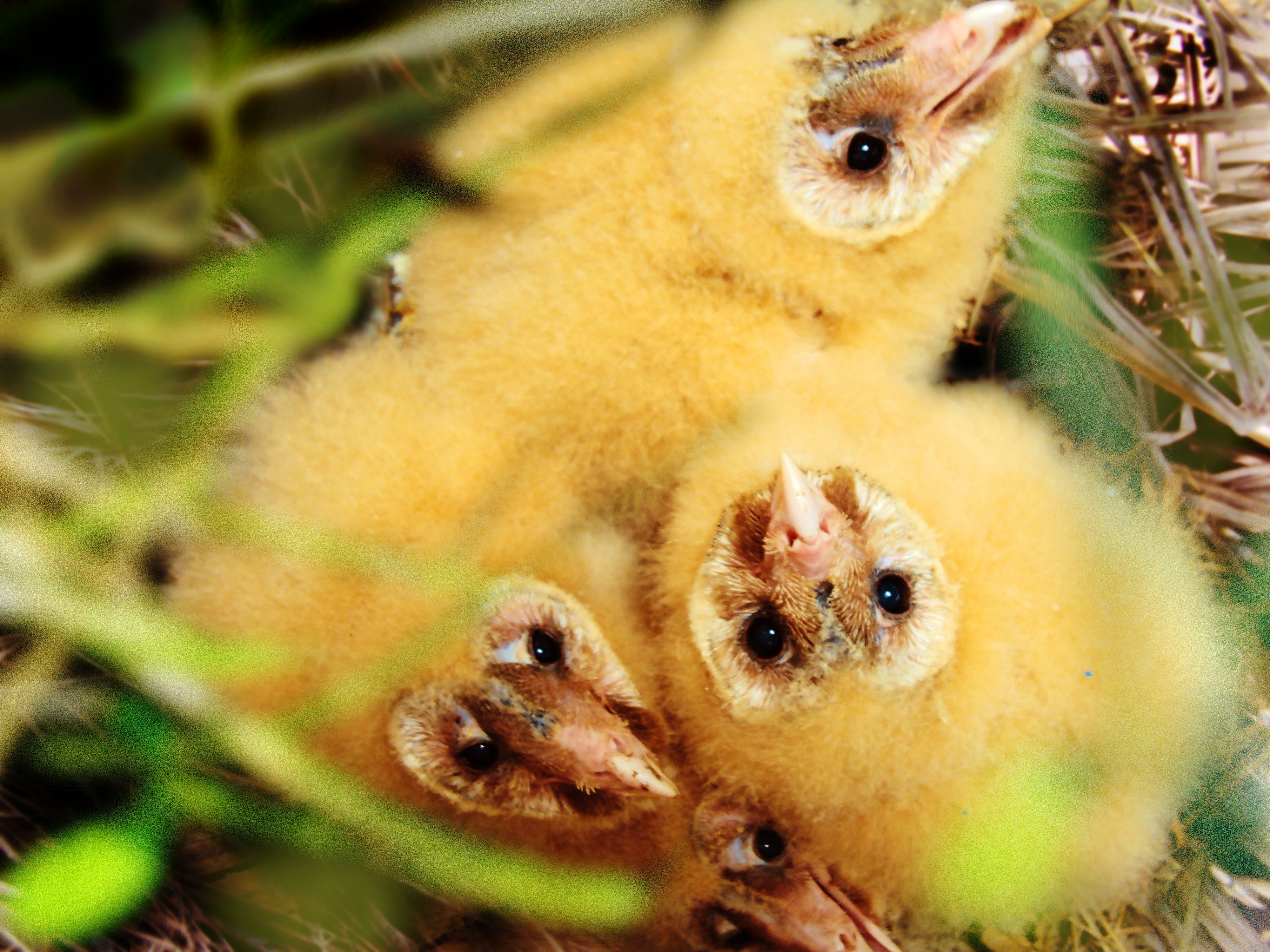 Immature Eastern Grass Owl chicks still covered with down feathers; Philippines. Photo by John and Shekainah Alaban Photography